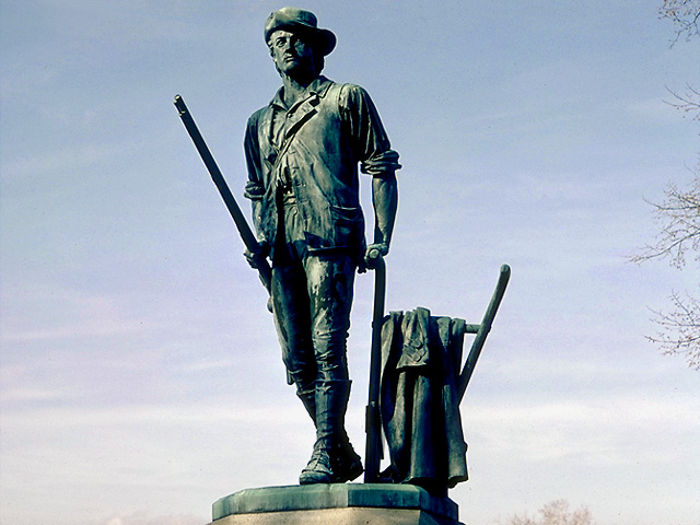 From Photograph of The Minute Man, a statue by Daniel Chester French erected in 1875 in Concord, Massachusetts. Although French had made sketches of some descendants of Isaac Davis, the first colonial killed during the fight at the North Bridge, April 19, 1775 (who was also the commander of the Acton Minute Men, one of the companies that fought there), French later wrote that he meant to depict in his statue the typical minute man of 1775. The first stanza of Emerson's Concord Hymn is inscribed at the base. The statue is located in Minute Man National Historical Park. It is commonly called "The Concord Minuteman," Captain John Parker of the Lexington Militia and is often confused with "Captain John Parker of the Lexington Militia" by the English sculptor Henry Hudson Kitson, from 1899.